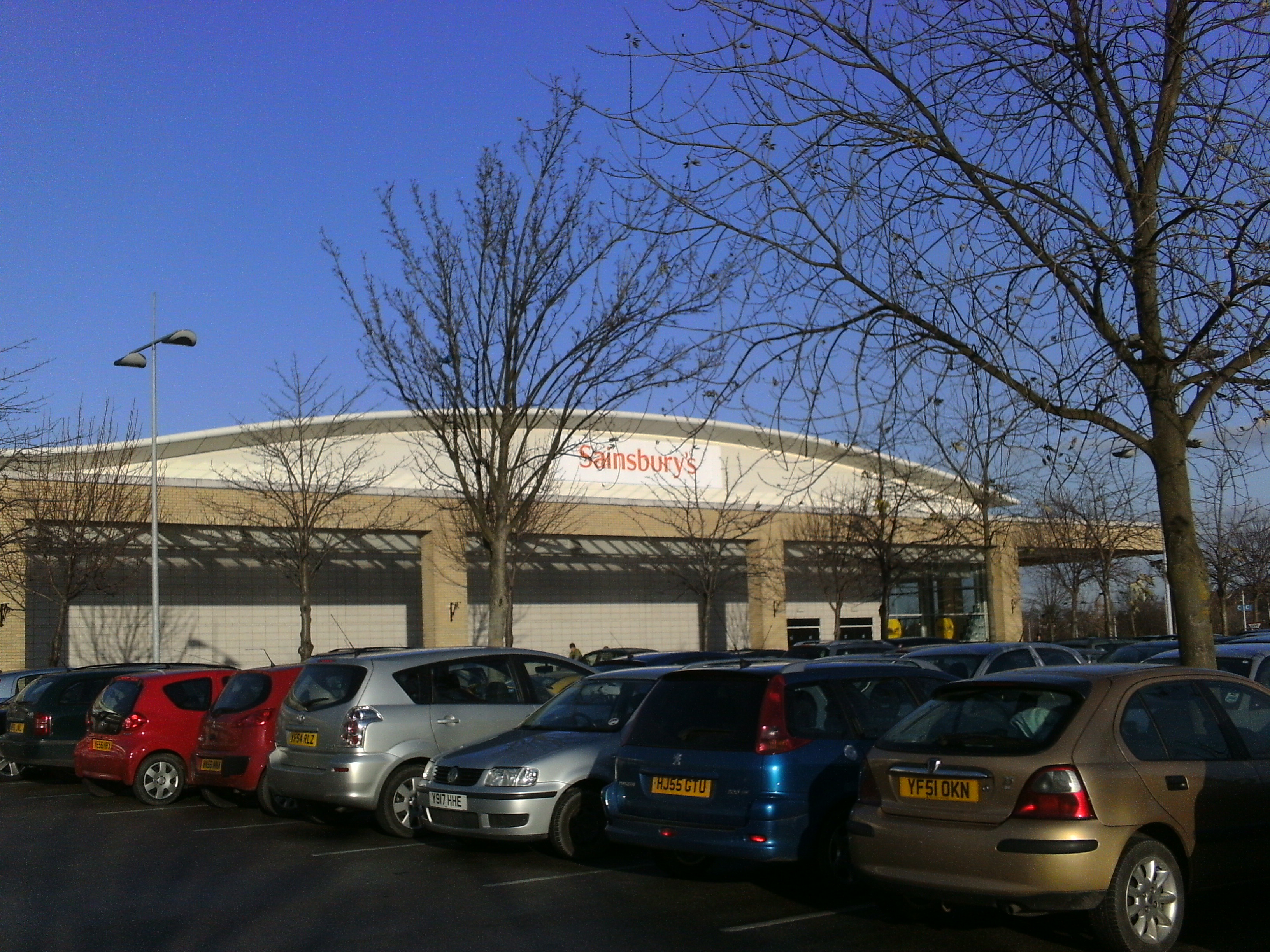 Sainsbury's at White Rose Shopping Centre, Leeds, West Yorkshire